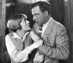 Low-resolution reproduction of publicity photograph for the American film The Barker (1928), featuring stars Dorothy Mackaill and Milton Sills